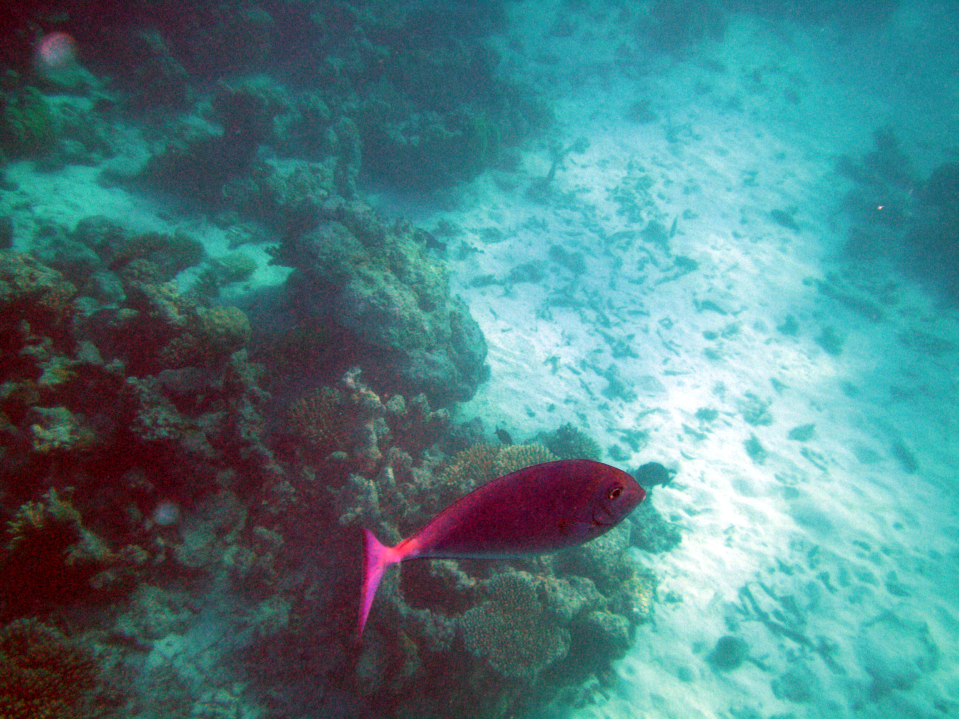 Maldives_sleek_unicornfish,_Naso_hexacanthus